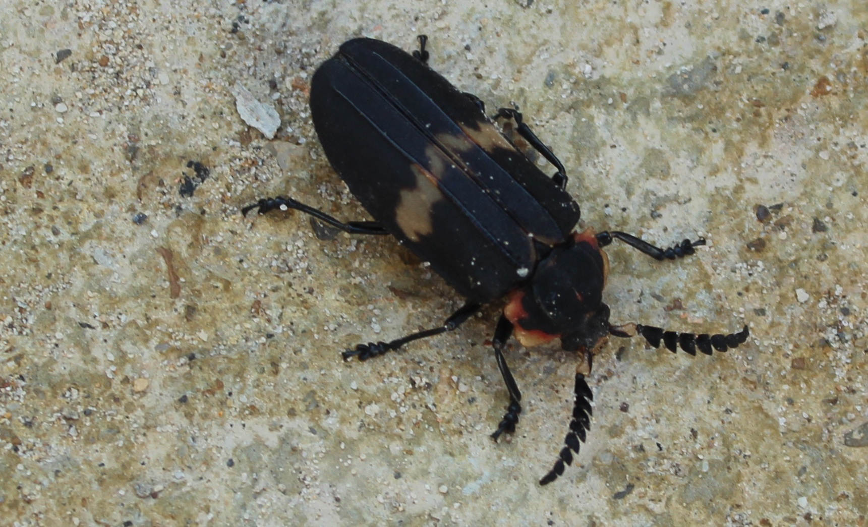 Allocerus dilaticorne. Species of insect.